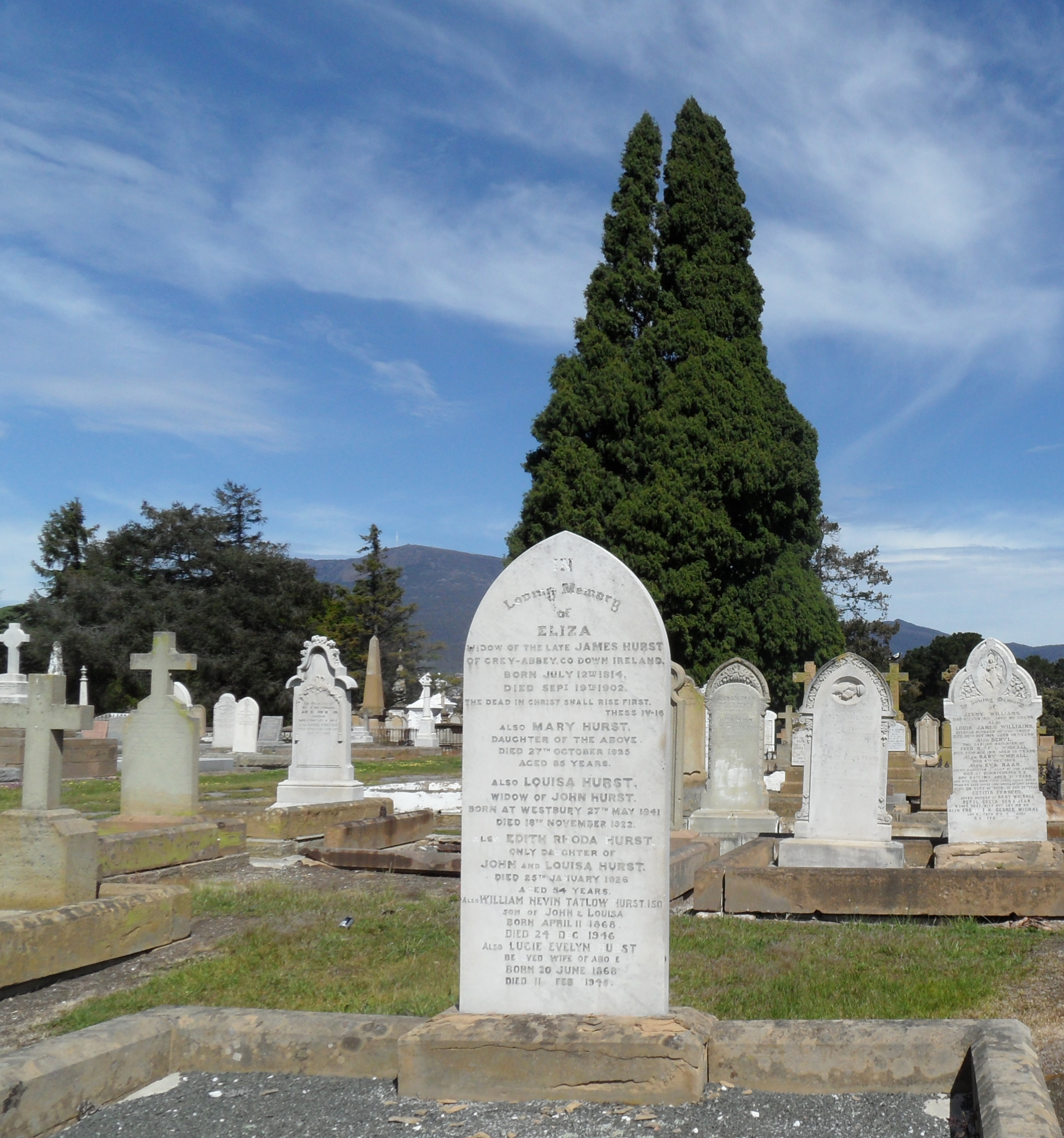 Hurst Family Grave in Cornelian Bay Cemetery near Hobart Tasmania